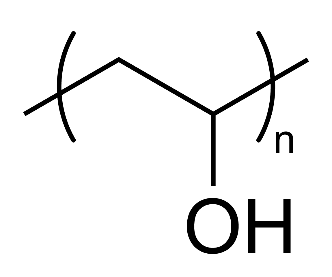 Description: Chemical structure of Polyvinyl alcohol. Author, date of creation: selfmade by Jesse on 2006-05-25. Source: user-created image Copyright: GNU Free Documentation License. (GFDL) Comments: high-resolution b/w PNG; ChemDraw / Photoshop.